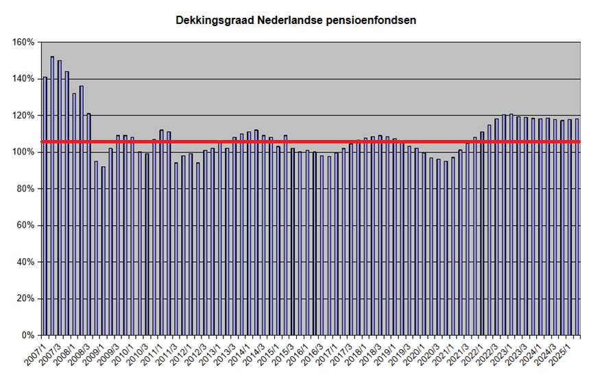 Coverage ration of Dutch pension funds from 2007, showing the strong deterioriation of their reserves due to the financial crisis. Graph made using data of pension sector regulator De Nederlandsche Bank, on DNB website, table T8.8nk. The red line shows the required minumum coverage ratio of 105%